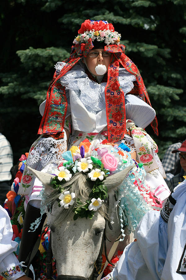 The Moravian Slovak Jizda Kralu (Ride of the Kings) Folk Festival which takes place in May at Vlcnov, Czech Republic. The King is a juvenile boy in woman's folk costume, with a rose held firm by his lips.